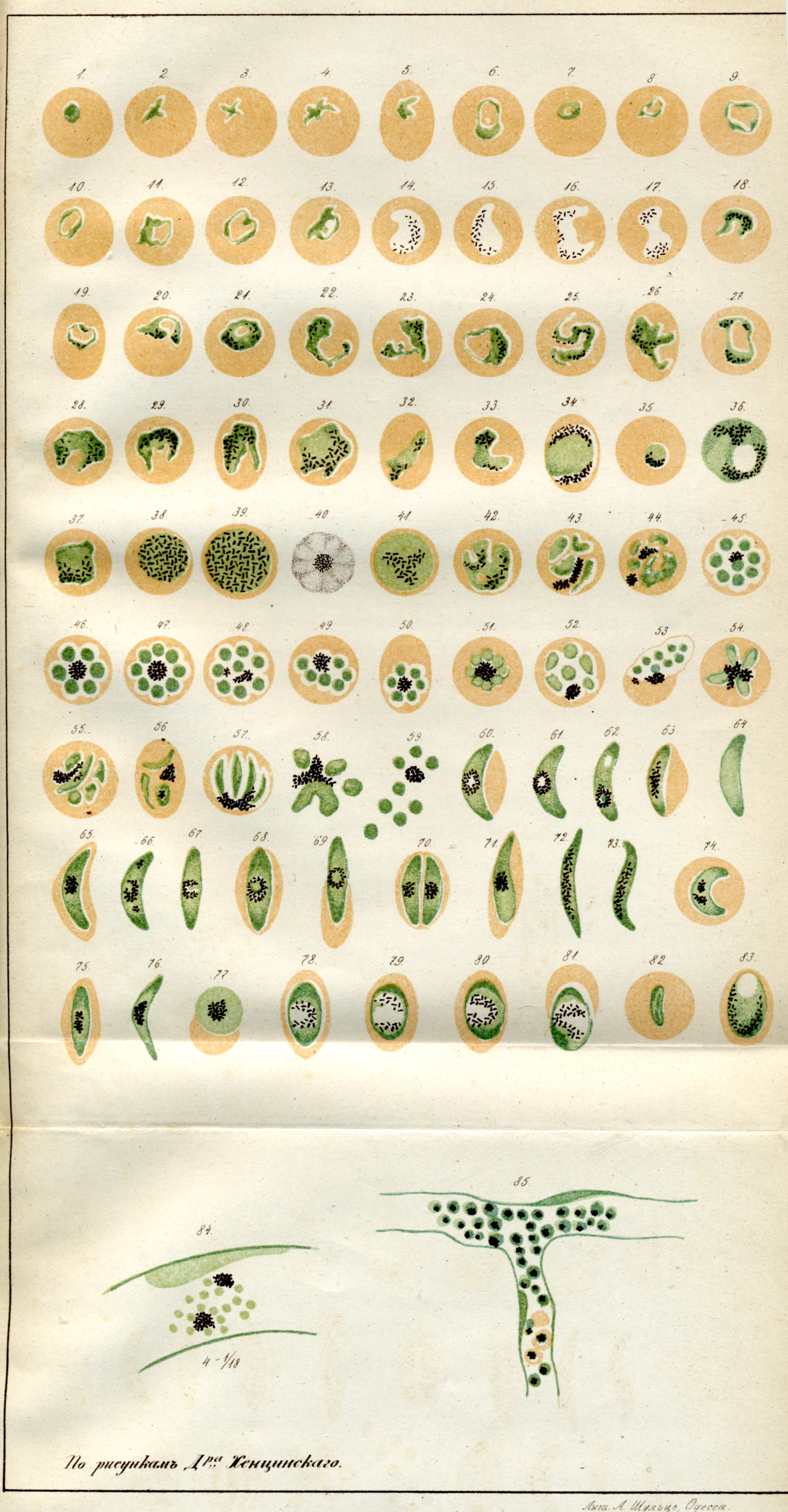 Plate from Khentsinskii's doctoral dissertation